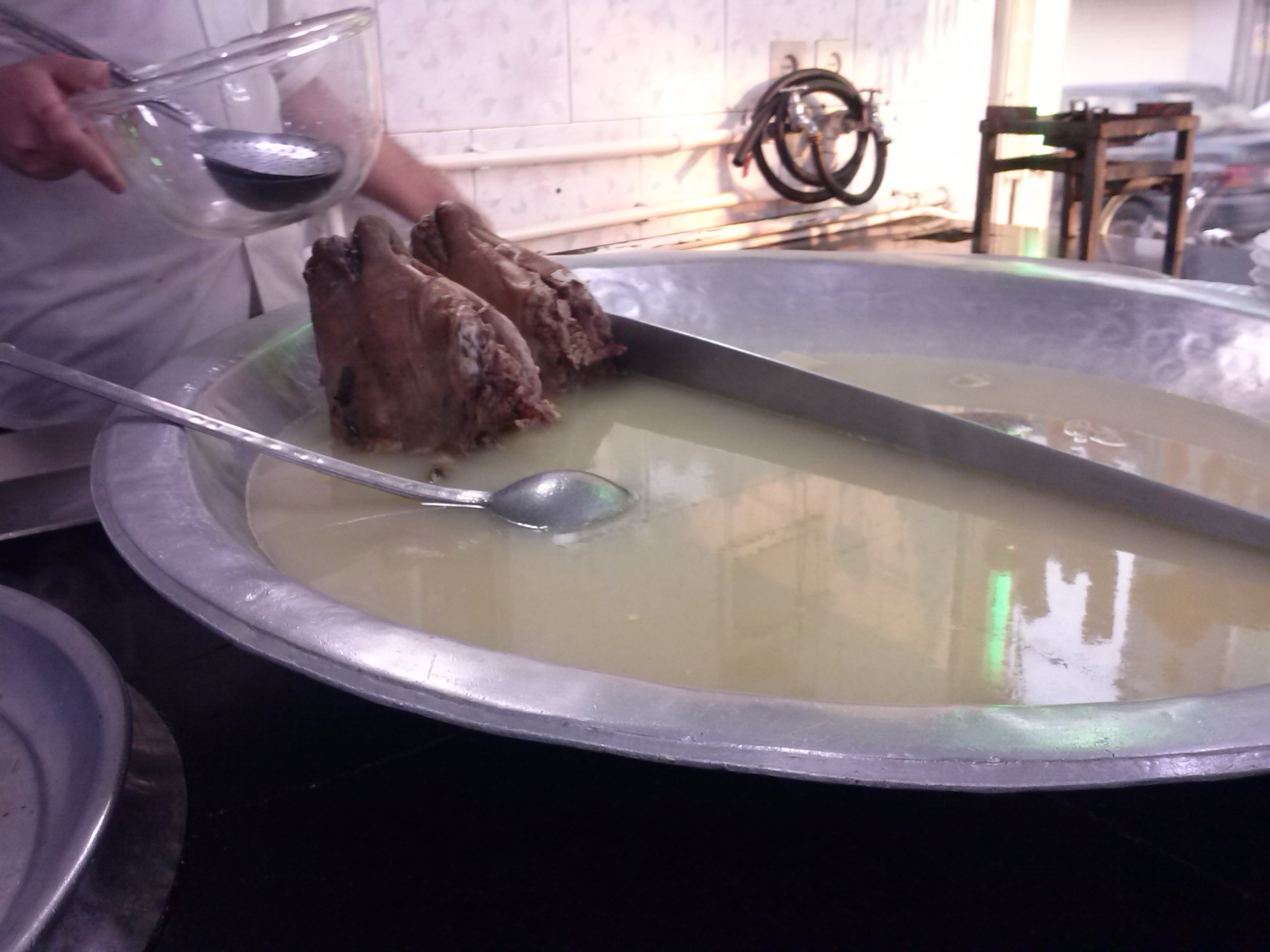 Boiled Heads in Tehran, Iran